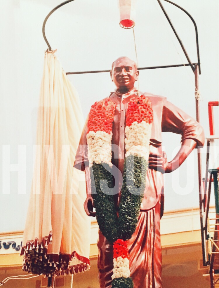 Perunthalaivar KAMARAJAR's Statue in Kamarajar Colony, Hosur